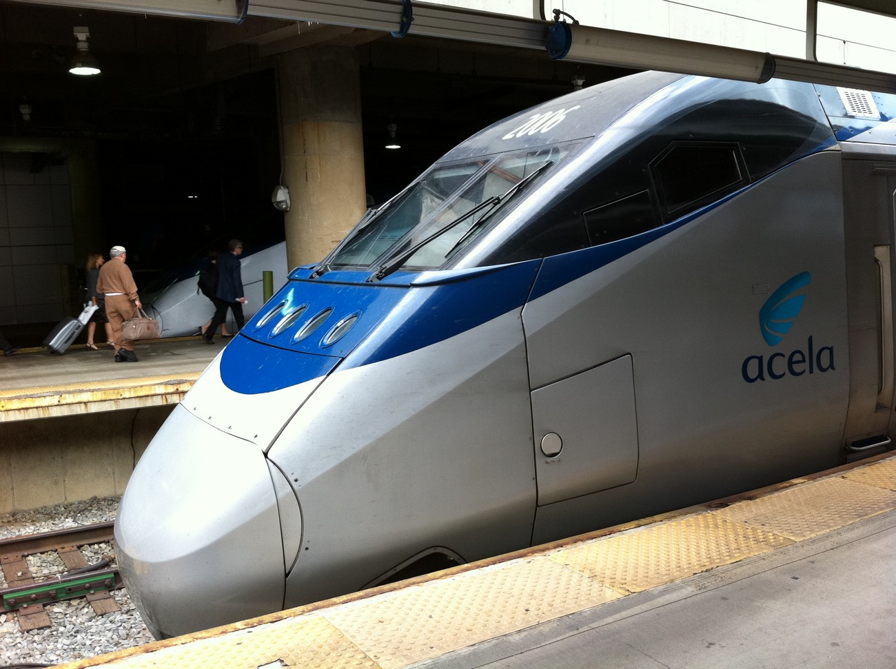 An Acela Express after its arrival in Washington, D.C. Union Station.